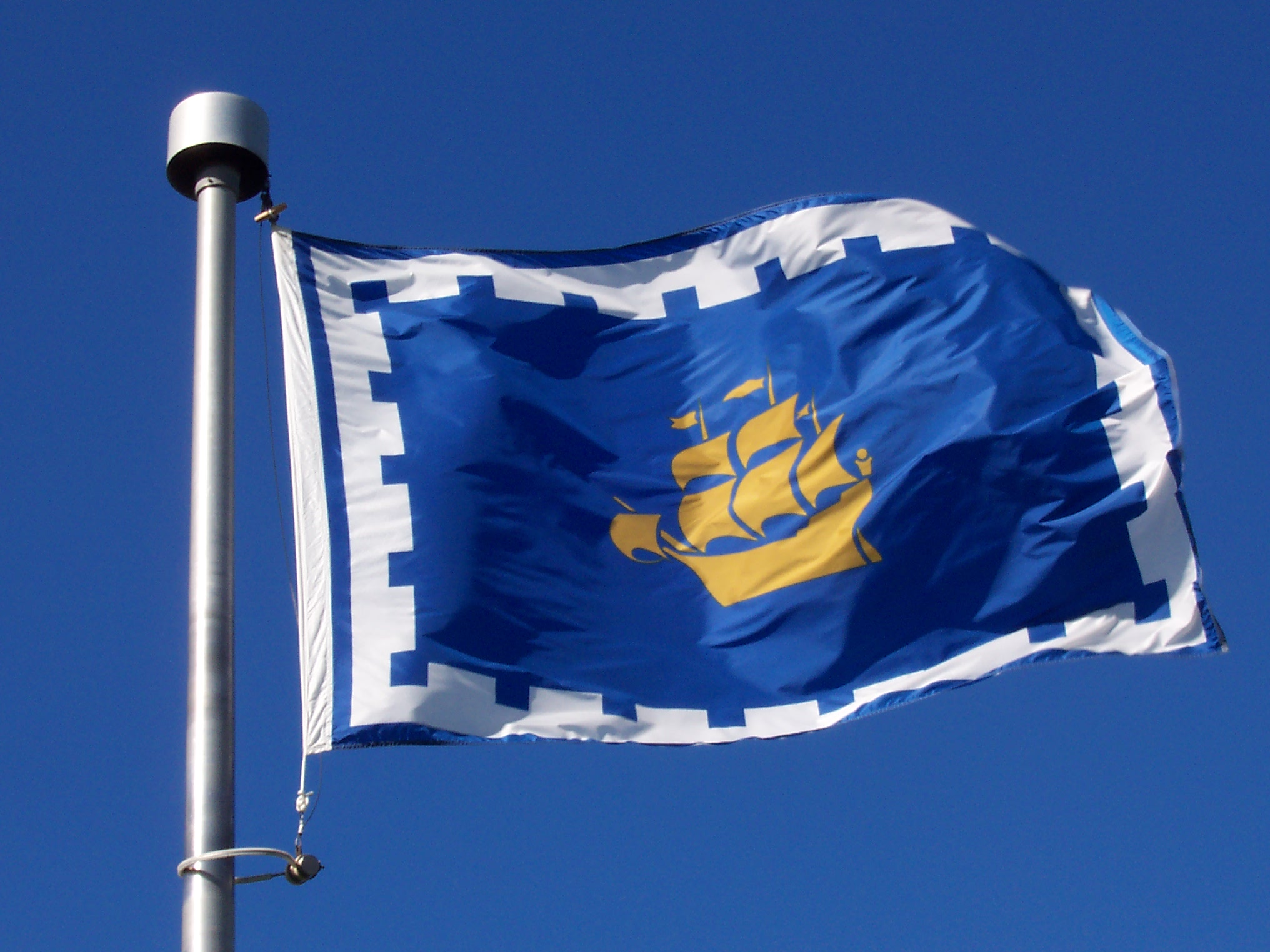 Flag of Quebec City, photographed in front of Val-Belair's point of service, in the Laurentien borough, september 8th, 2007.